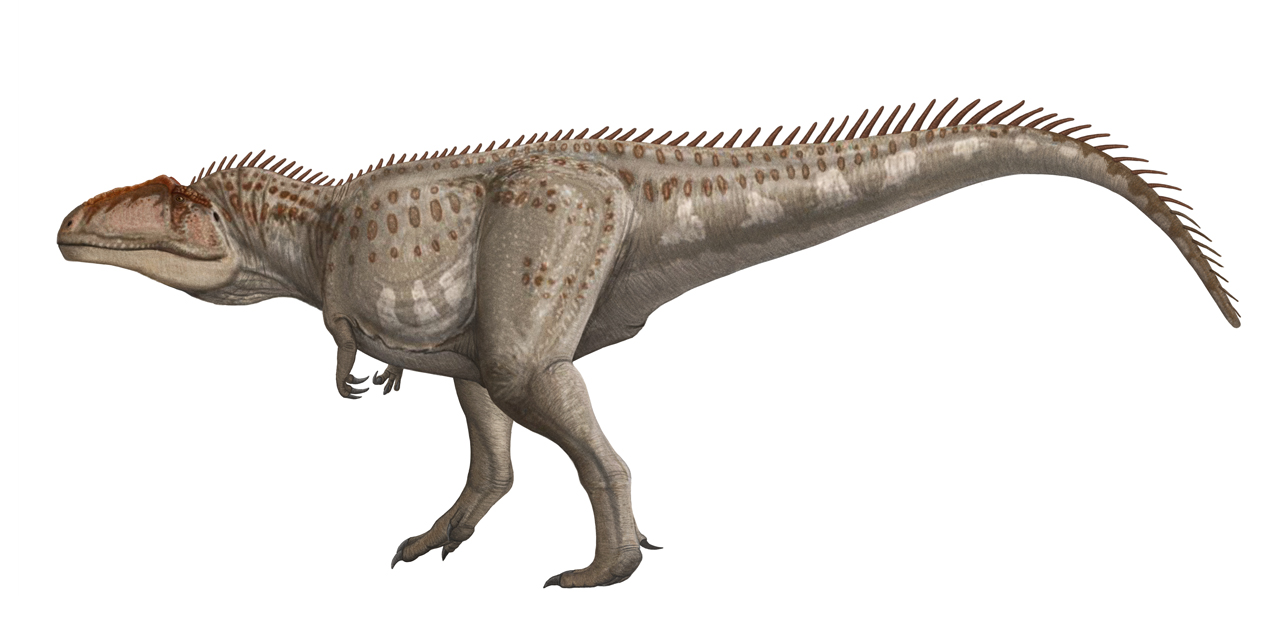 Life restoration of Giganotosaurus. • The proportions of the illustration are based on skeletal diagrams by palaeontologists Gregory S. Paul (The Princeton Field Guide to Dinosaurs, 2010, p. 98) and Scott Hartman[1]. • The dermal spines and skin colouration are speculative.